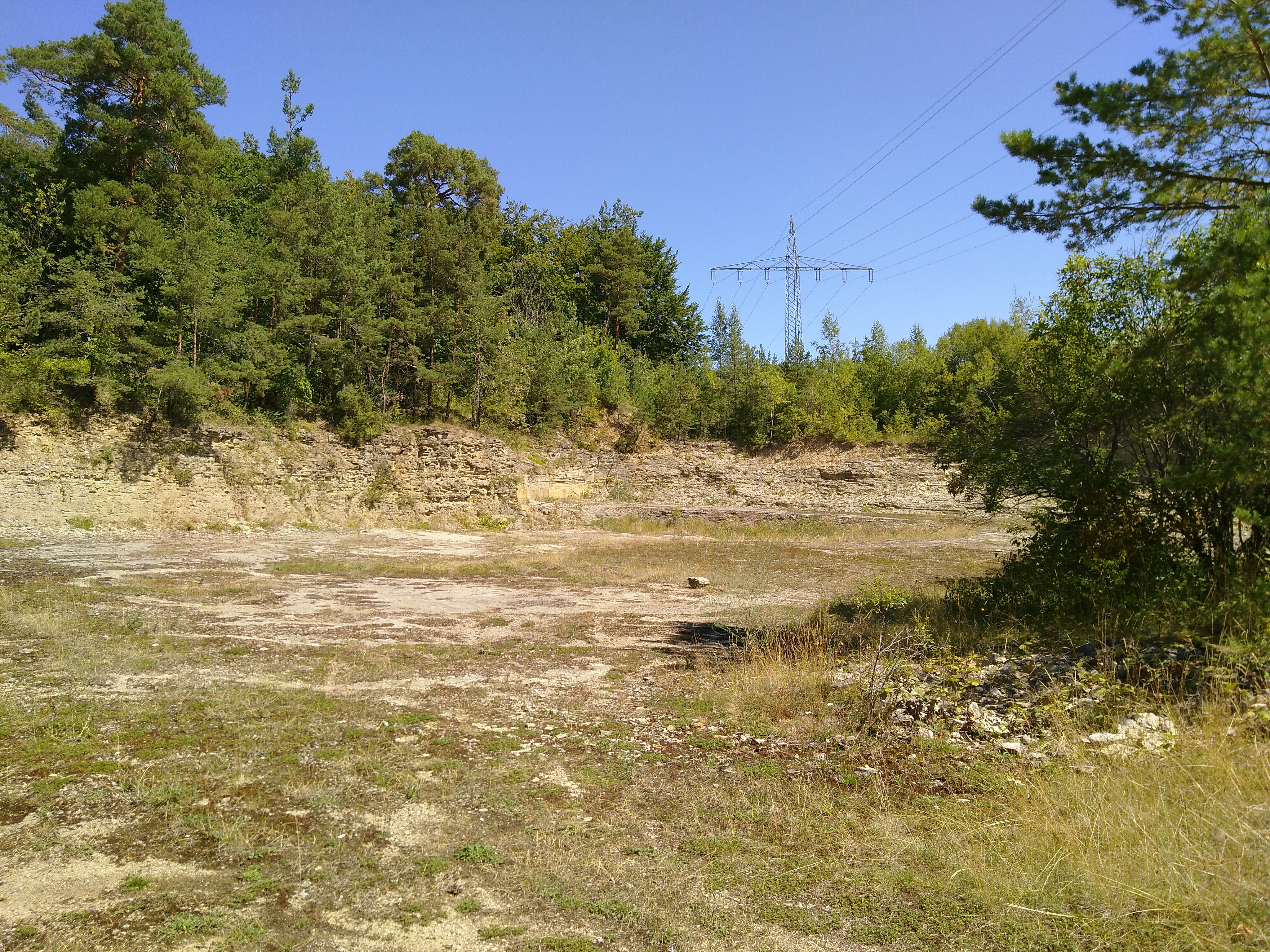 An overview of Geotop Ramsthal; taken in August 6th 2018.